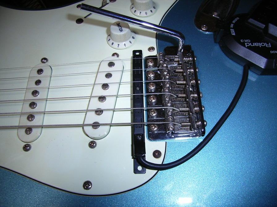 Roland Divided PickUP GK-3（Model Stratocaster made ​​by grass-roots）